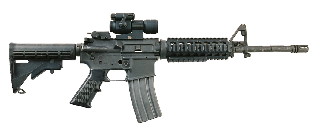 M4A1 Carbine Flat-Top